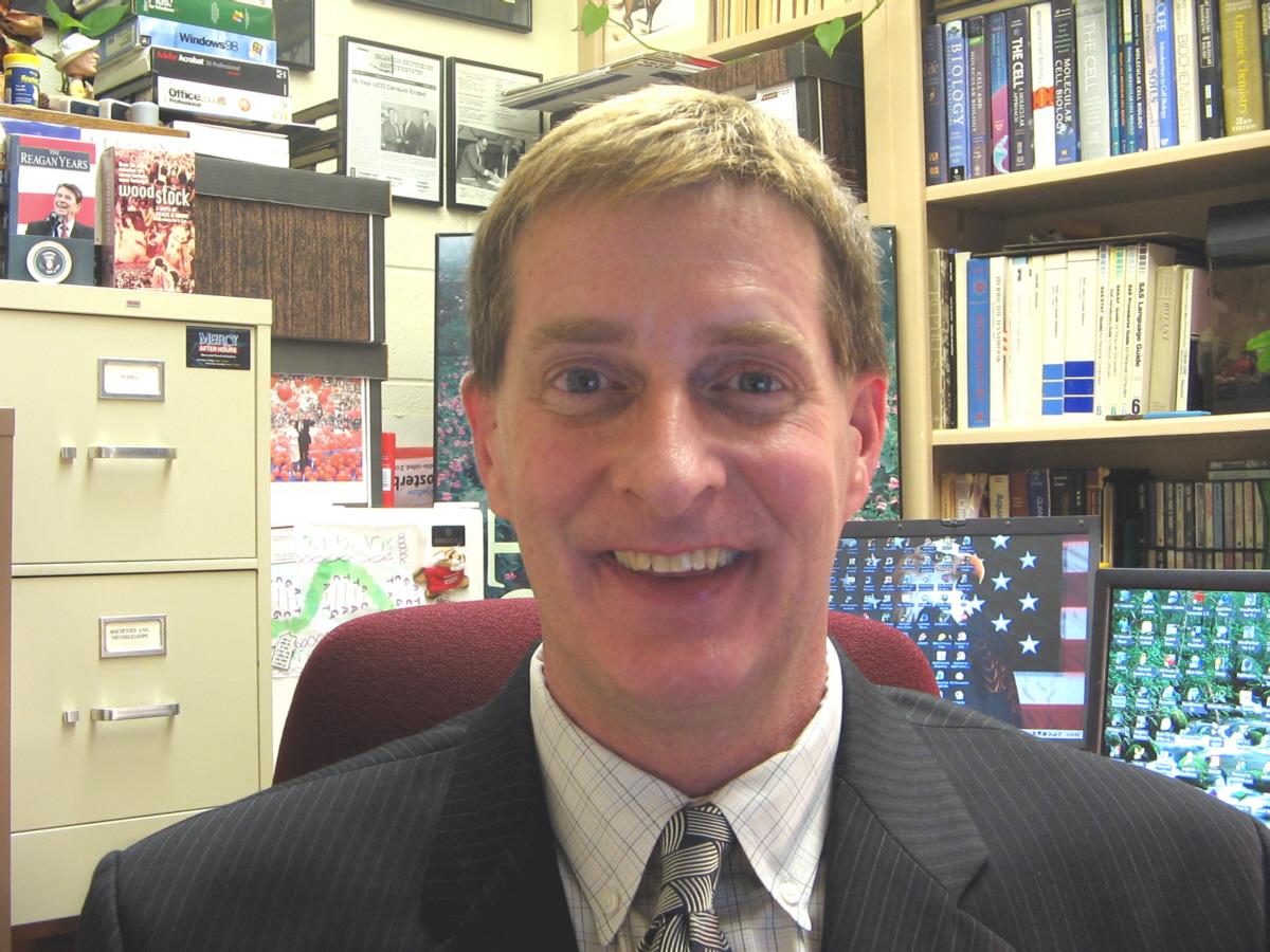 This is a photograph of the famous Dr. James Enderby Bidlack